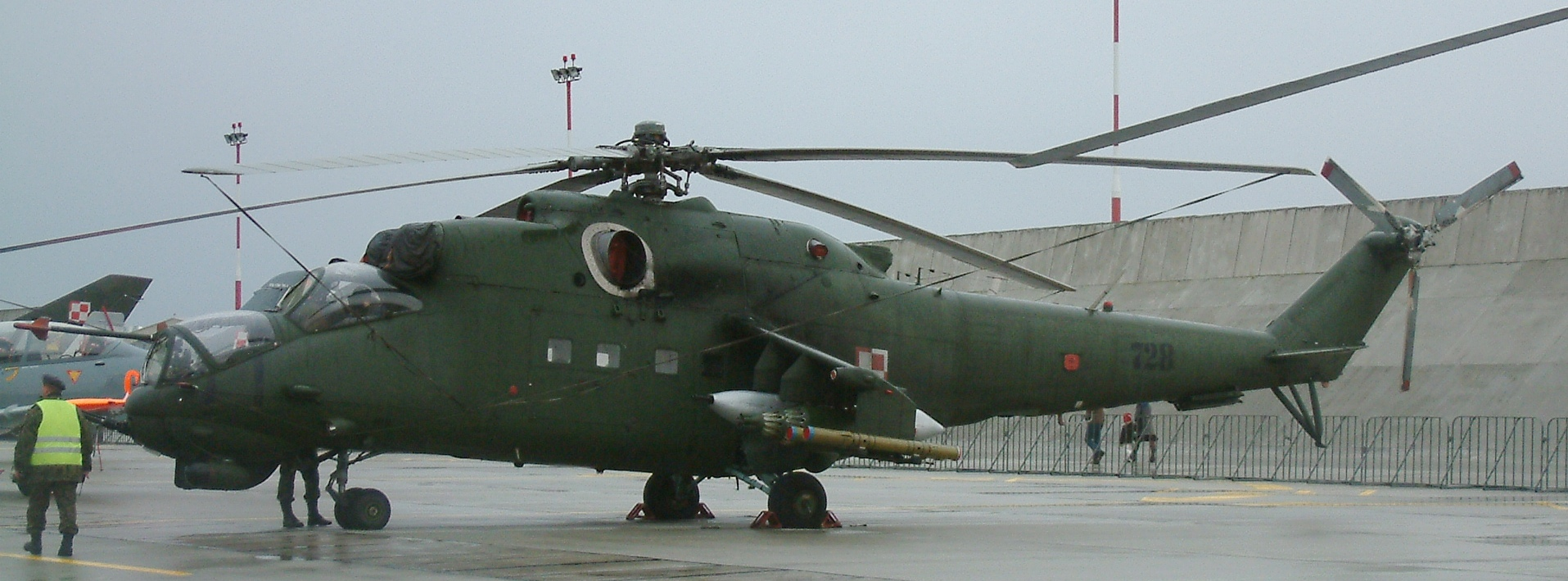 Mi-24W #728 of Polish Land Forces Aviation, 31st. Air Base Poznań-Krzesiny